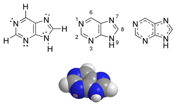 Chemical structure of purine.